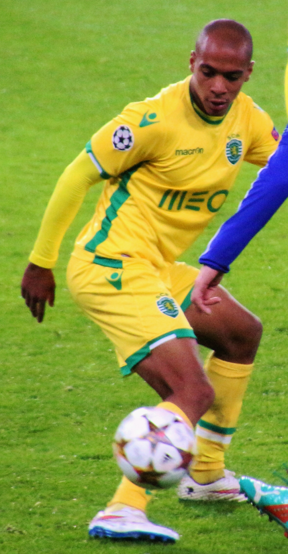 João Mário